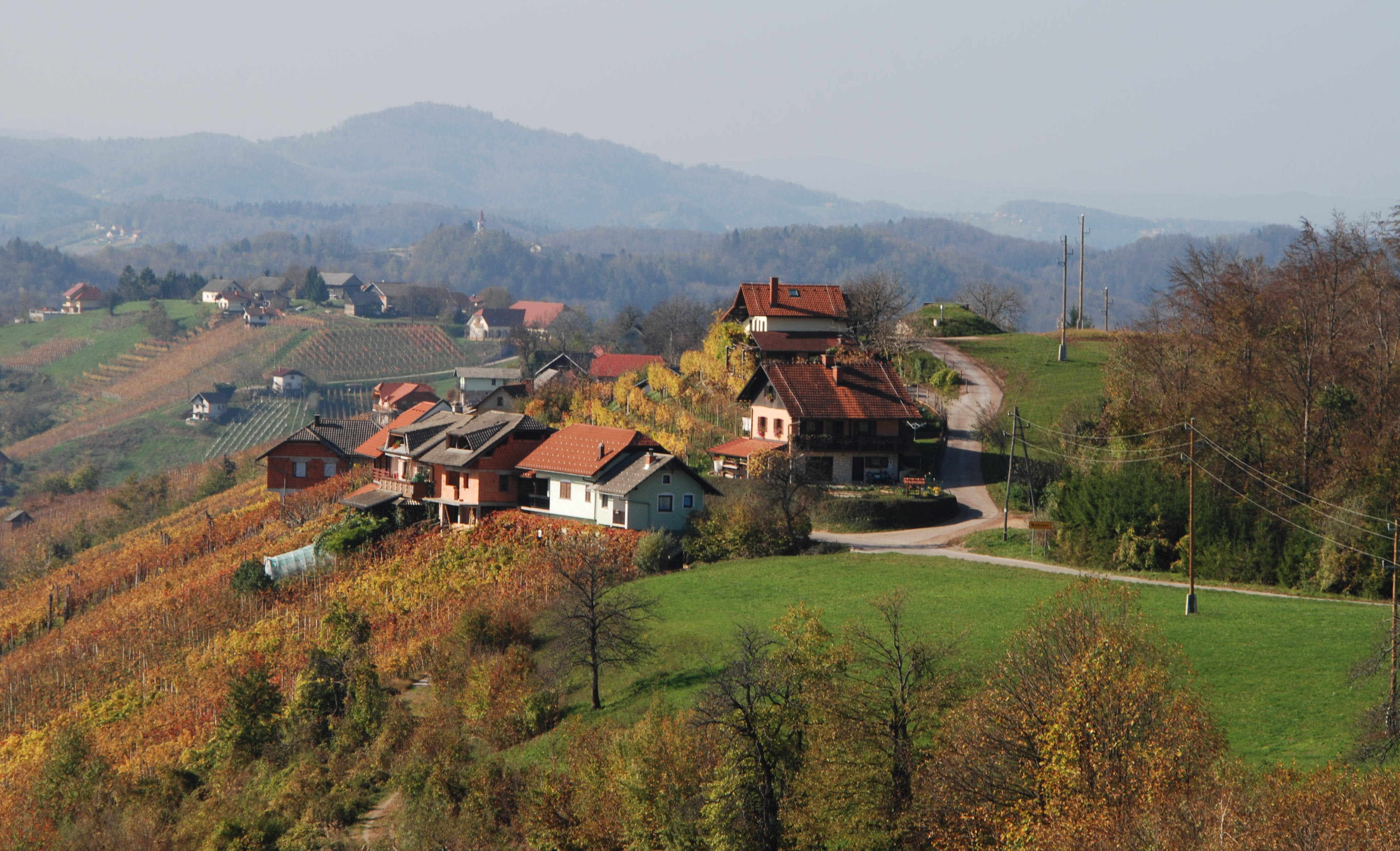 View of the village of Malkovec (Municipality of Sevnica, southeastern Slovenia) from the village of Slančji Vrh (from the east).